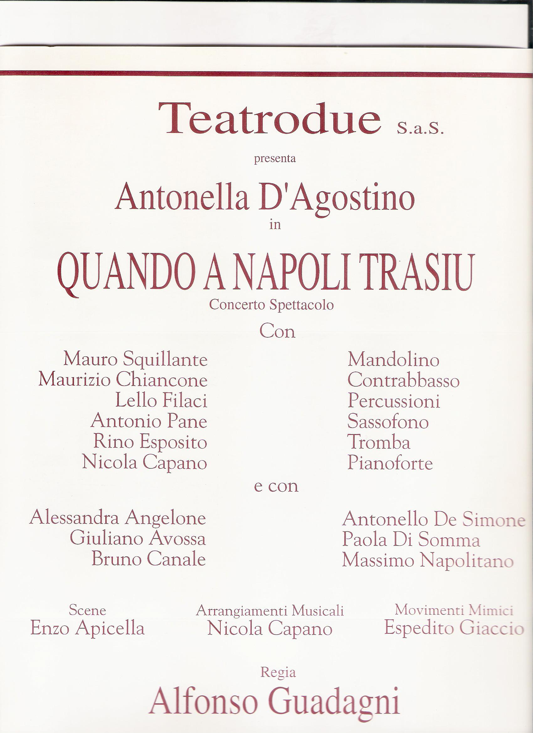 Locandina dello spettacolo "Quando a Napoli trasiu" (1994)